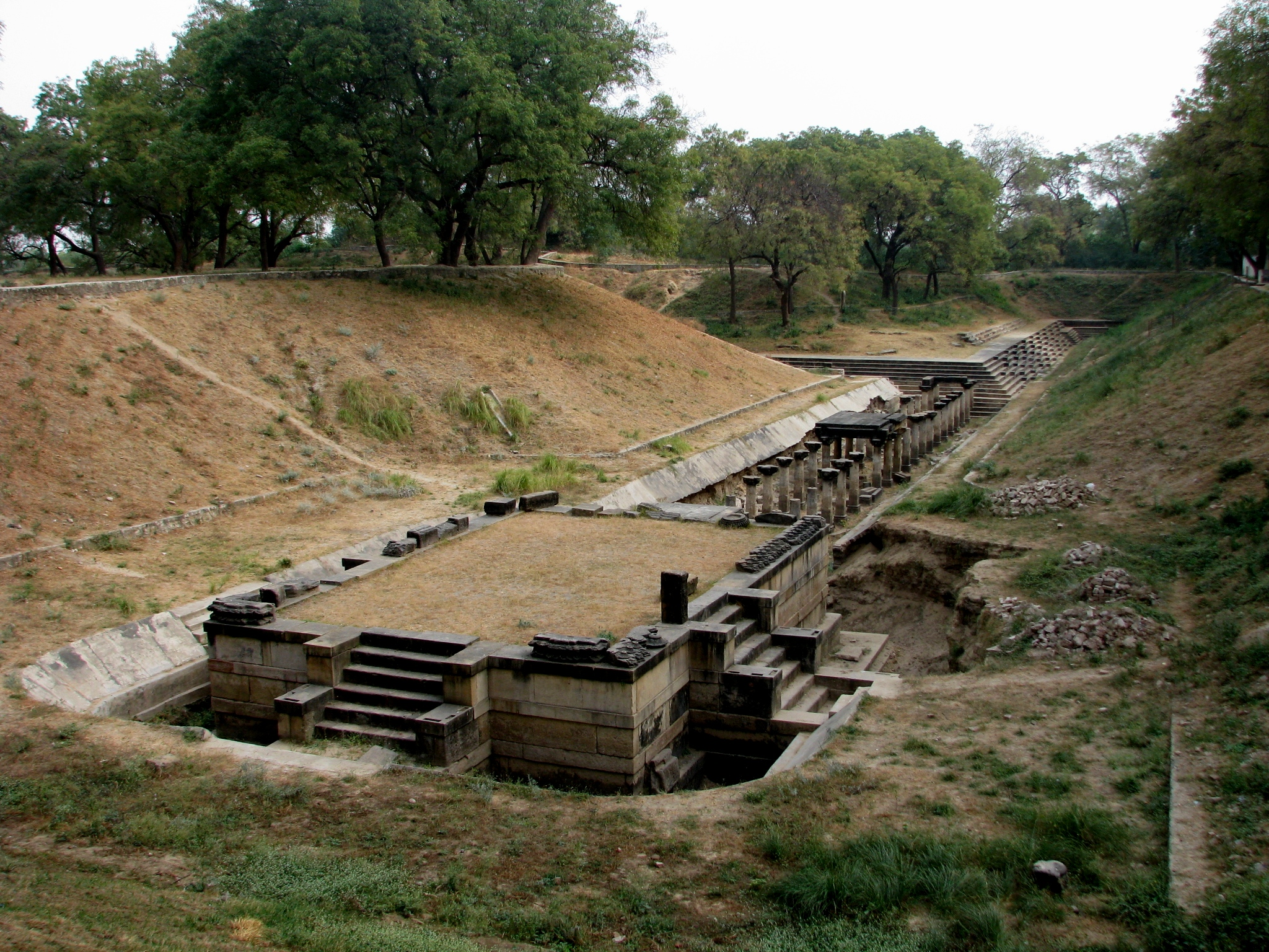 Sahasraling Talav, Patan